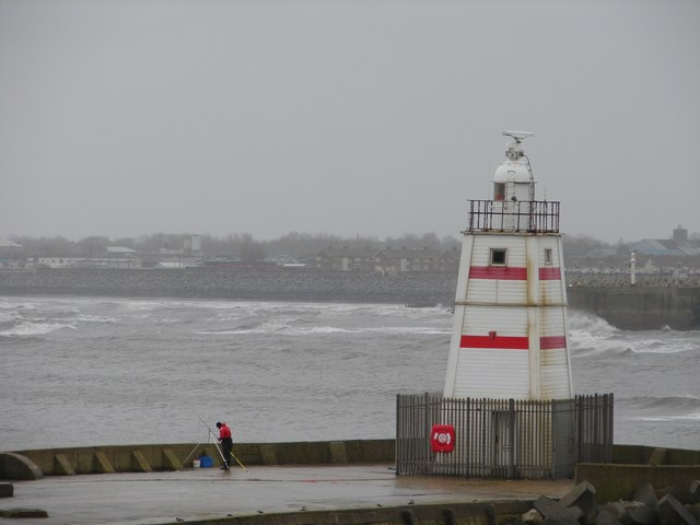 It's Never Too Wet to Fish Still fishing despite the wind and rain at The Headland.